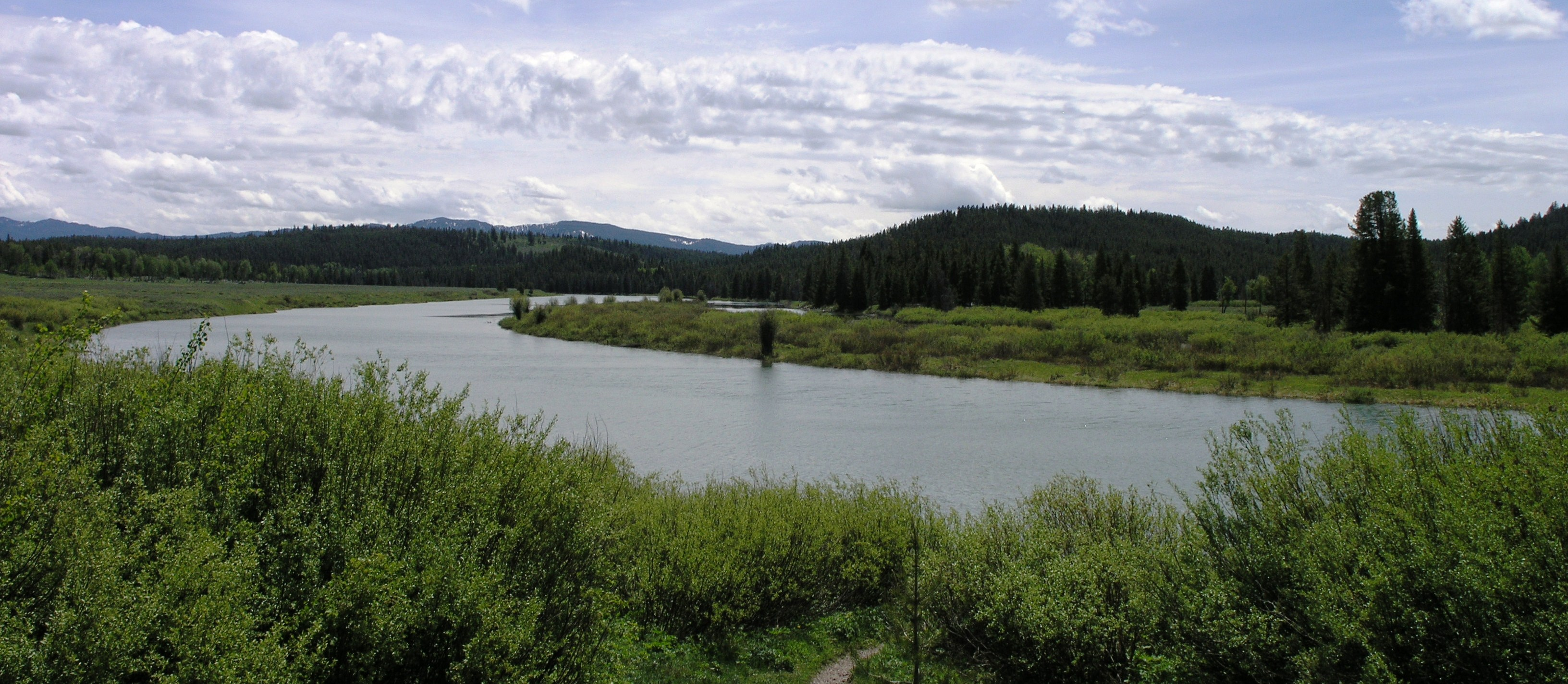 Photo in or around Grand Teton National Park